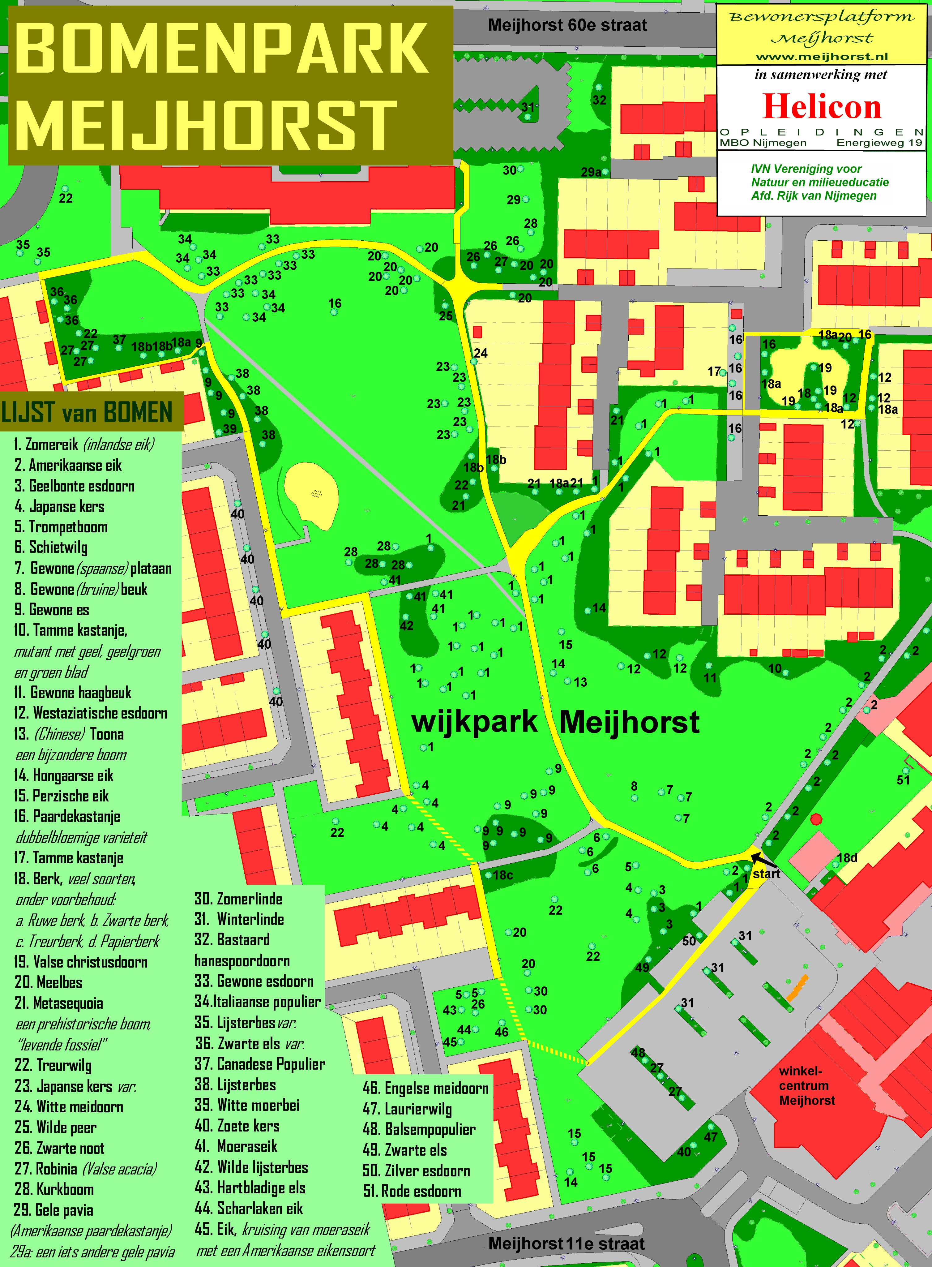 Map of Treepark Meijhorst, Dukenburg, Nijmegen(Gld, NL) made by me.